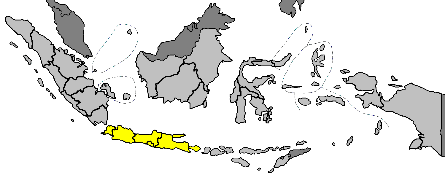 locator map of Indonesian islands